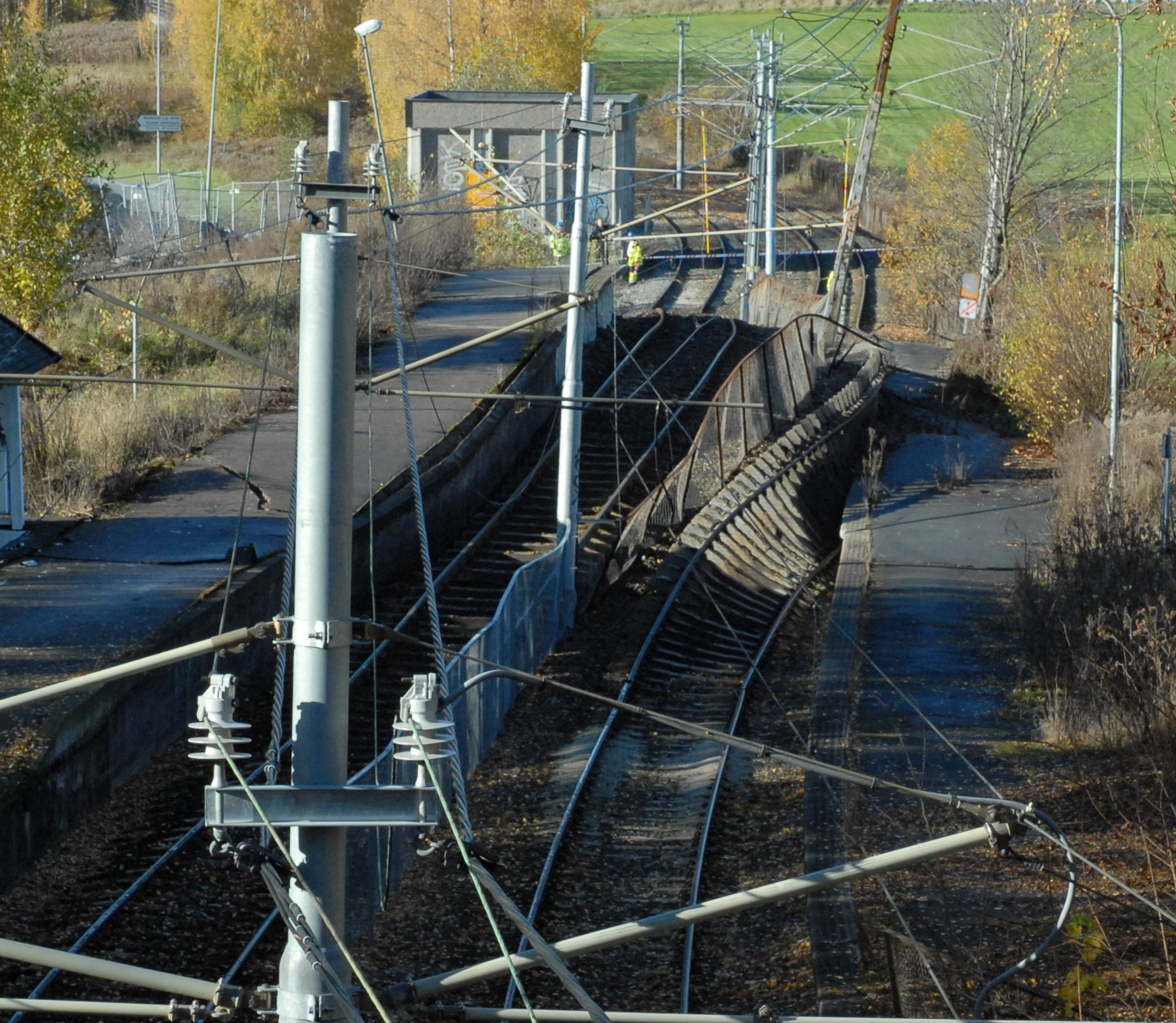 Gjønnes Station after the land movement tonight. The two tracks and platforms used to be level, now the left platform is approx 4 meters higher, and the right track has been turned 90 degrees.